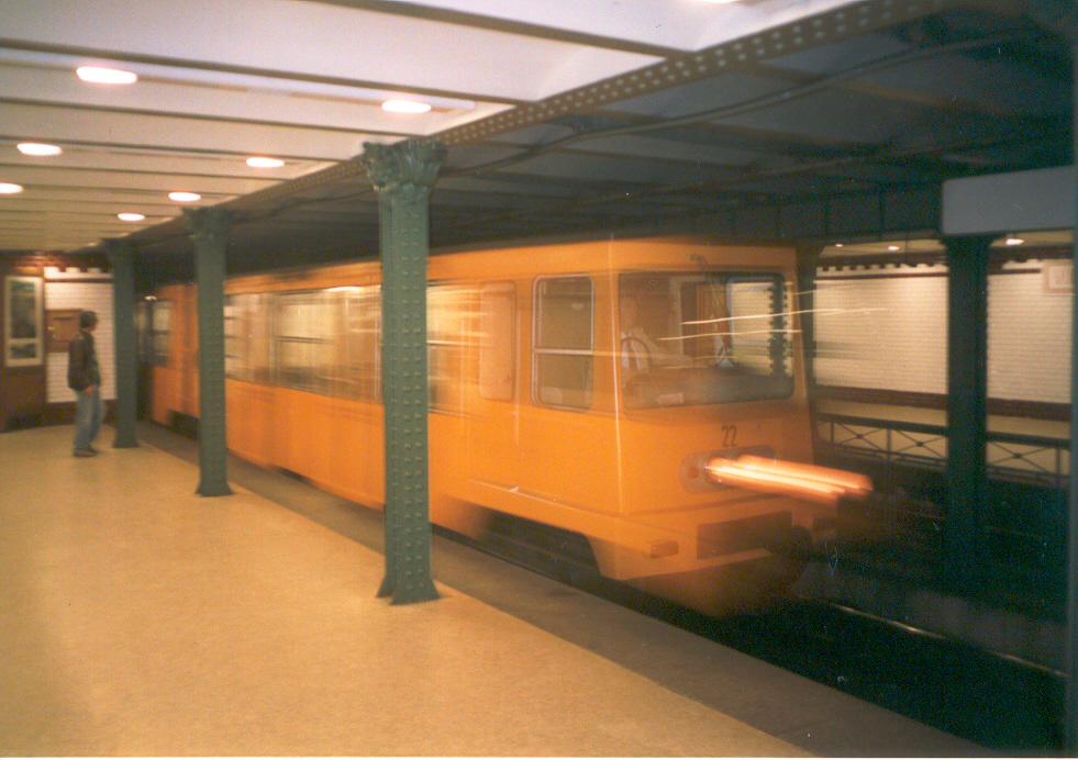 Terminus of Millenium underground Vörösmarty tér.